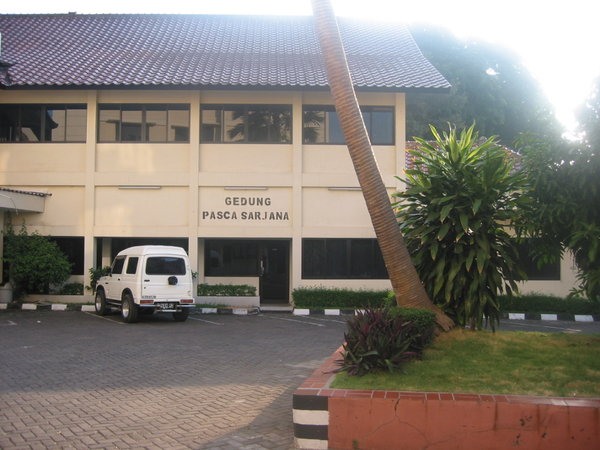 Jakarta Theological Seminary Building for Post Graduate Study